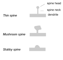 Cartoon showing some of the more common spine types found on the dendrites of neurons.